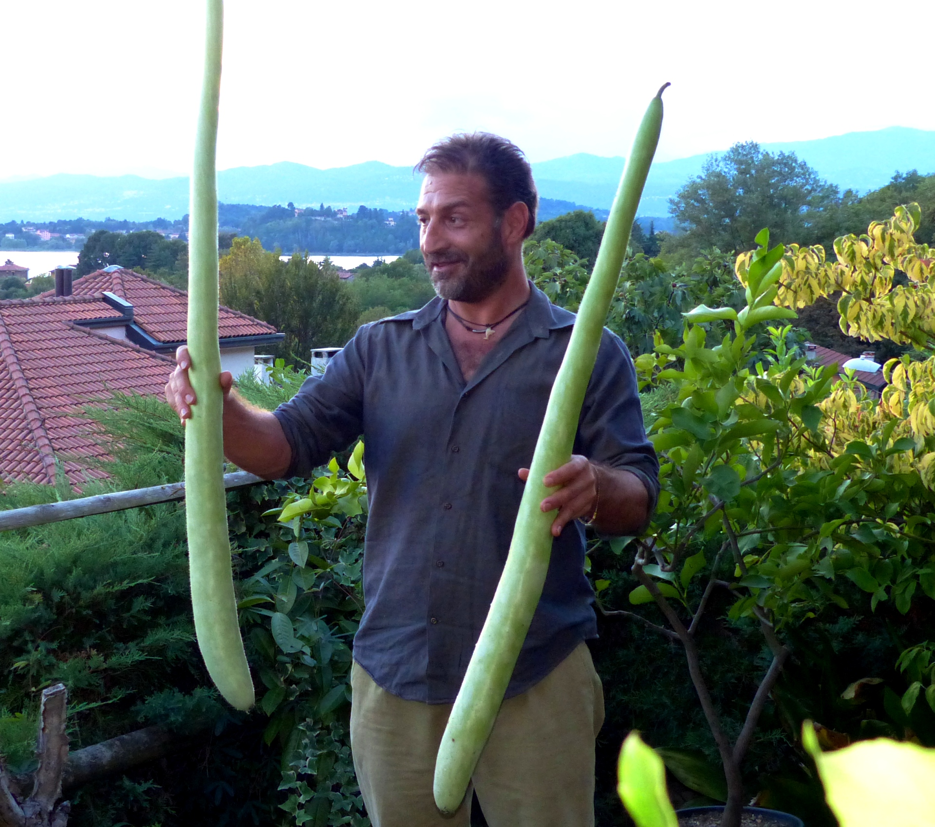 Sicilian zucchini